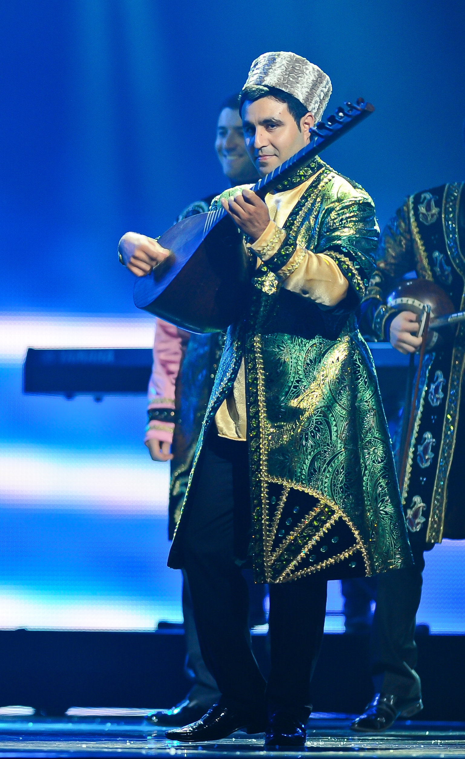 Azerbaijani ashiq in Baku Crustal Hall. Eurovision 2012